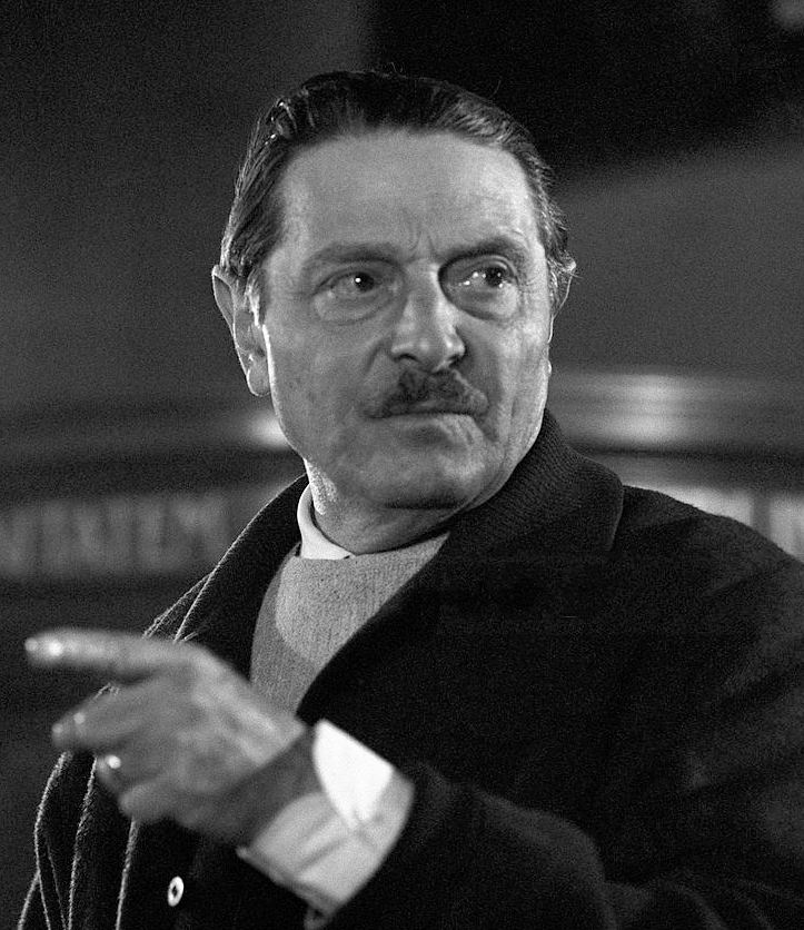 Italian director Alessandro Blasetti directing the shooting of Me, Me, Me.. and the Others. Rome, June 1965.